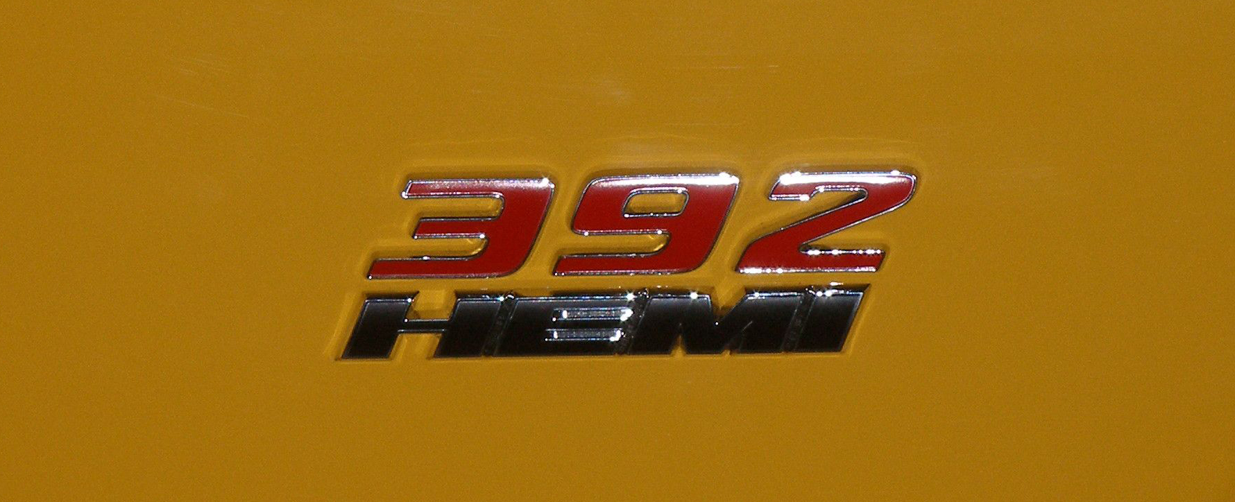 The 392 HEMI badge on a 2012 Dodge